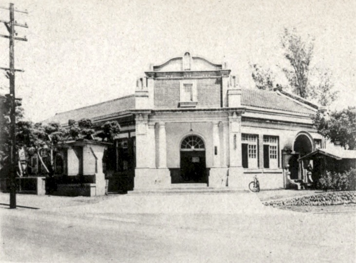 南投街役場